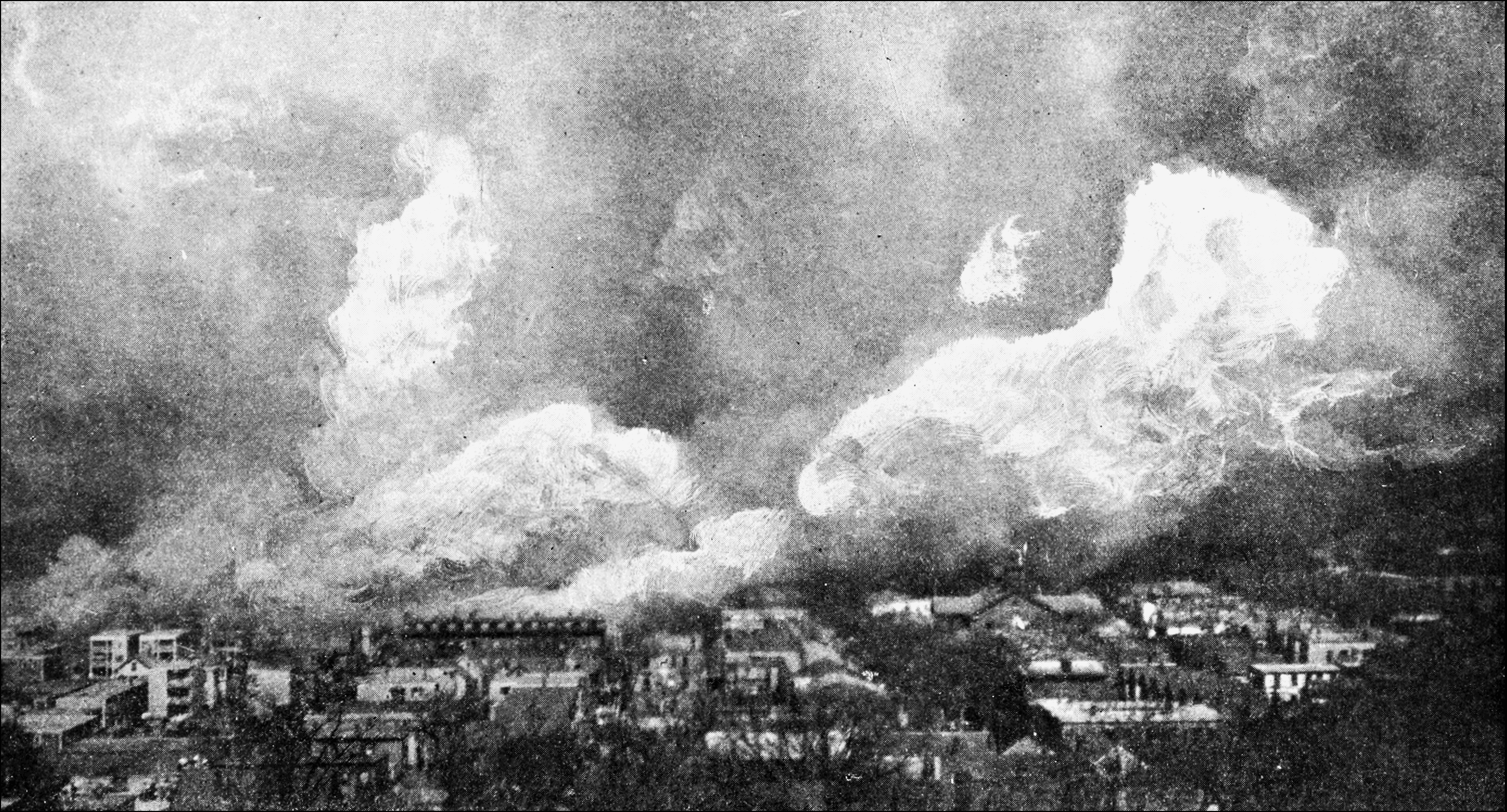 The chelsea fire viewed from the marine hospital